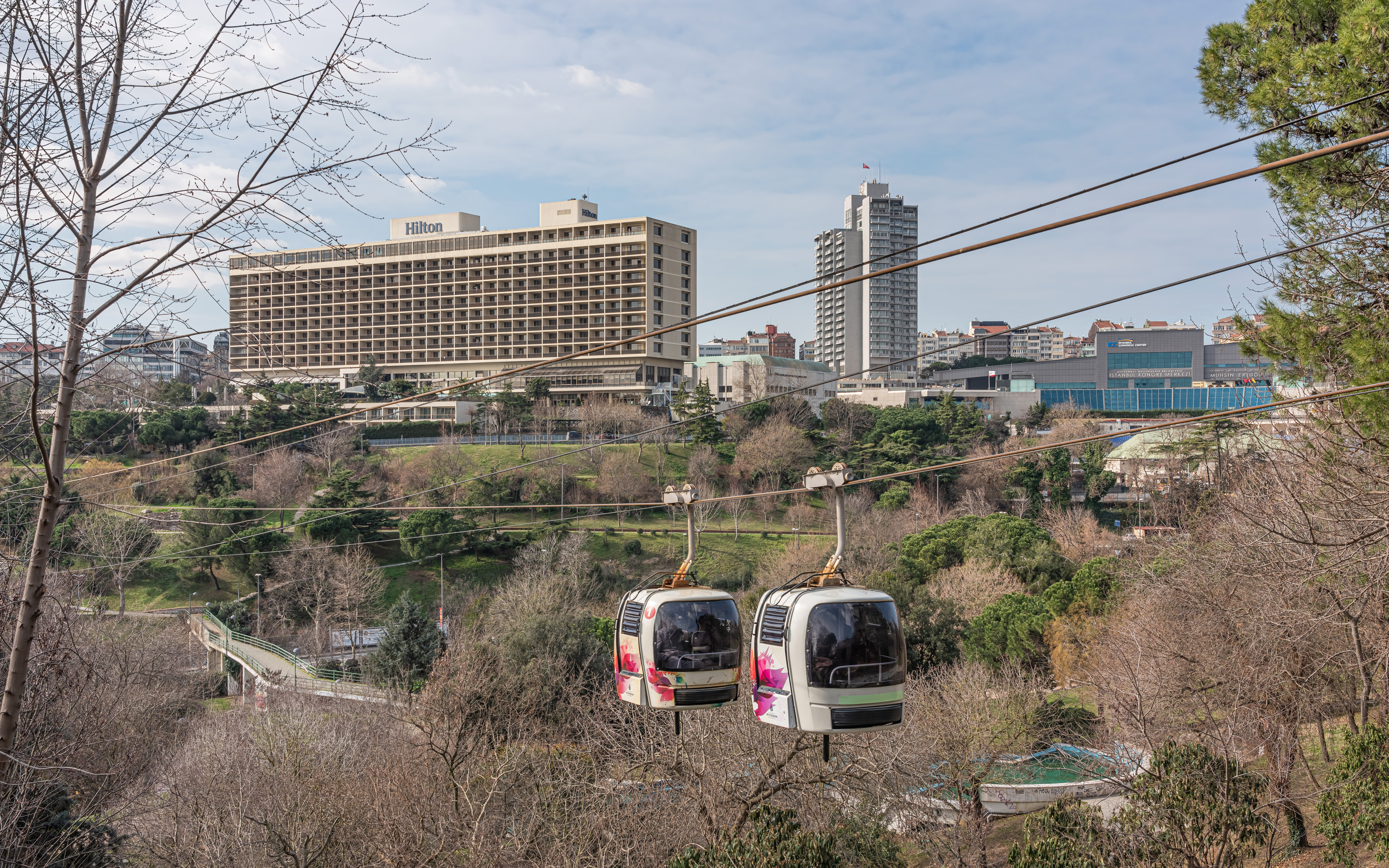 Maçka Gondola (view from the upper station) in Istanbul, Turkey